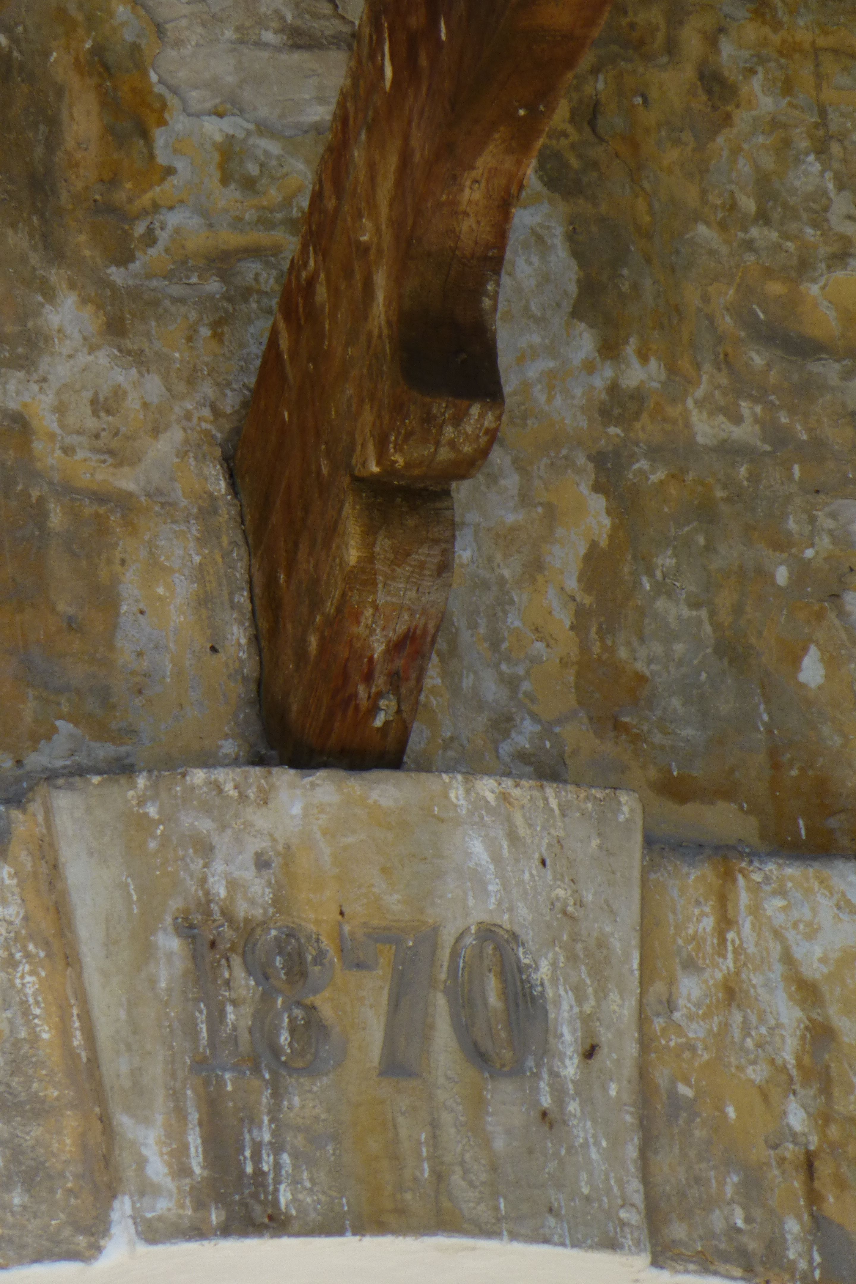 Israel, Haifa, 12 Sderot Ben Gurion, Beit Shumacher, 1870